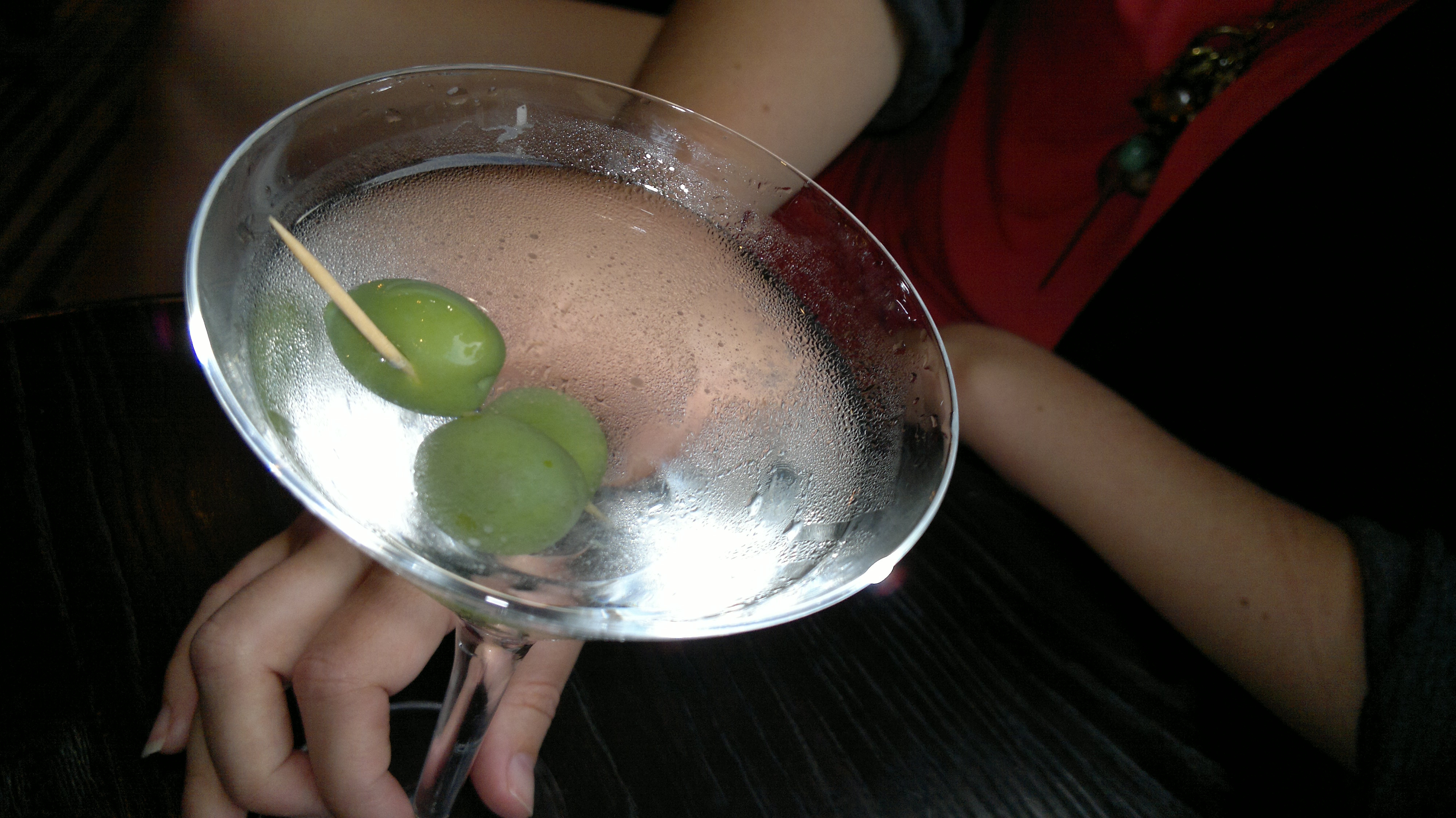 Vodka Martini (via the Jugged Hare)